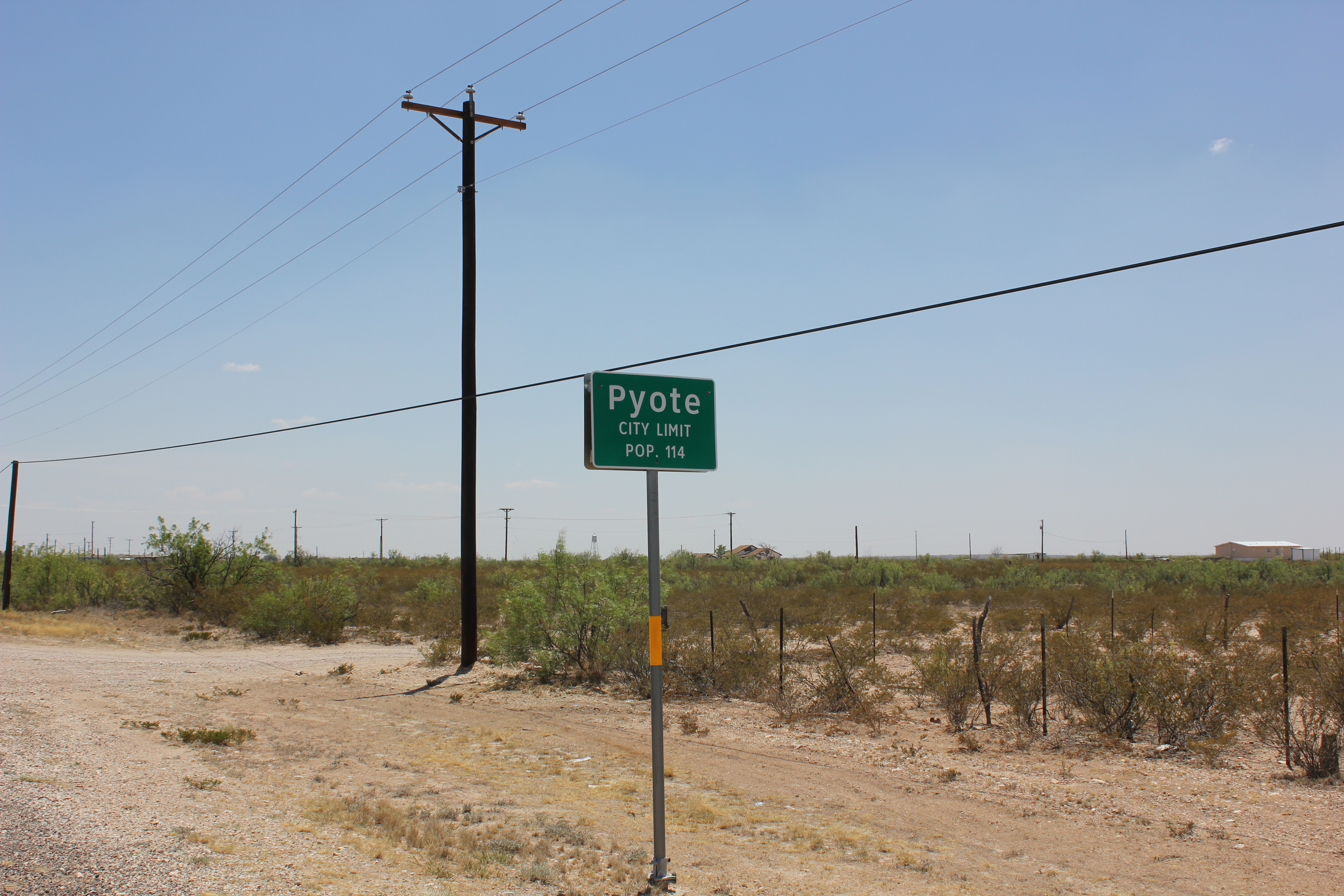 Pyote, Texas city limits sign